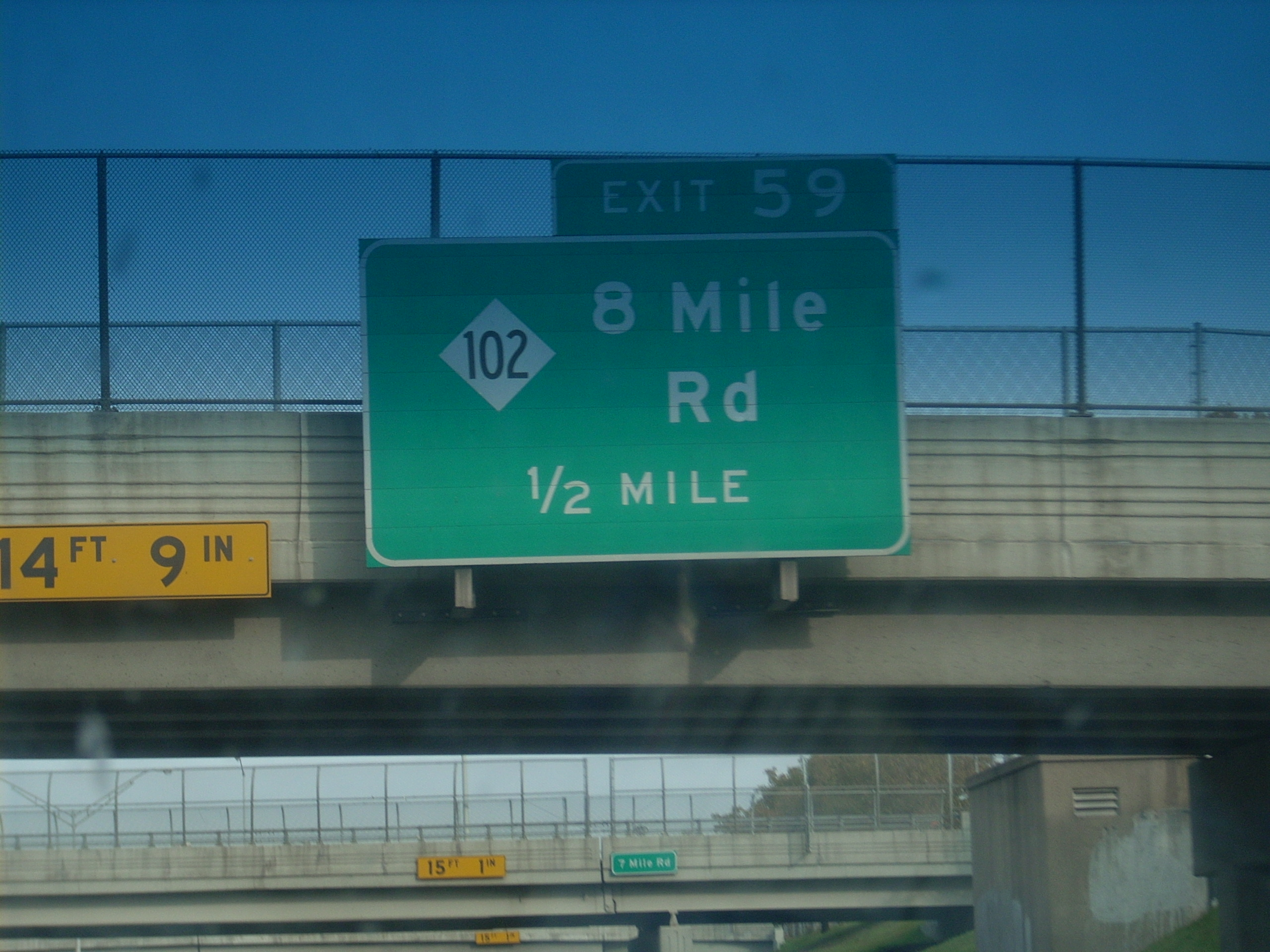 Road sign for 8 Mile Rd on E Brentwood St bridge over I-75 northbound lanes, near the outskirts of Detroit.